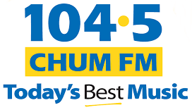 CHUM FM Logo 2015-Present